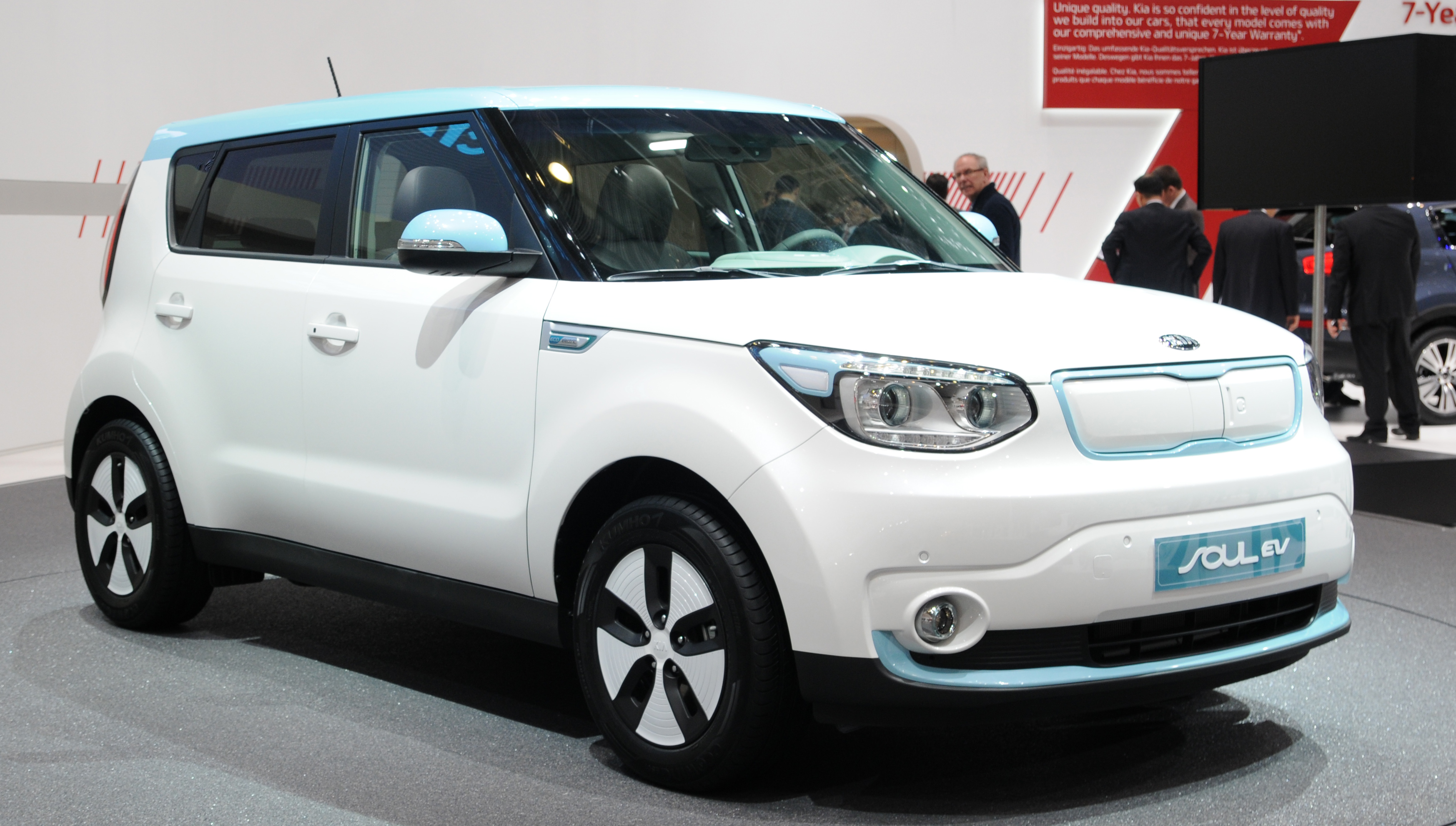 Kia Soul EV at the Geneva Motor Show 2014 (photo taken on the first press day)